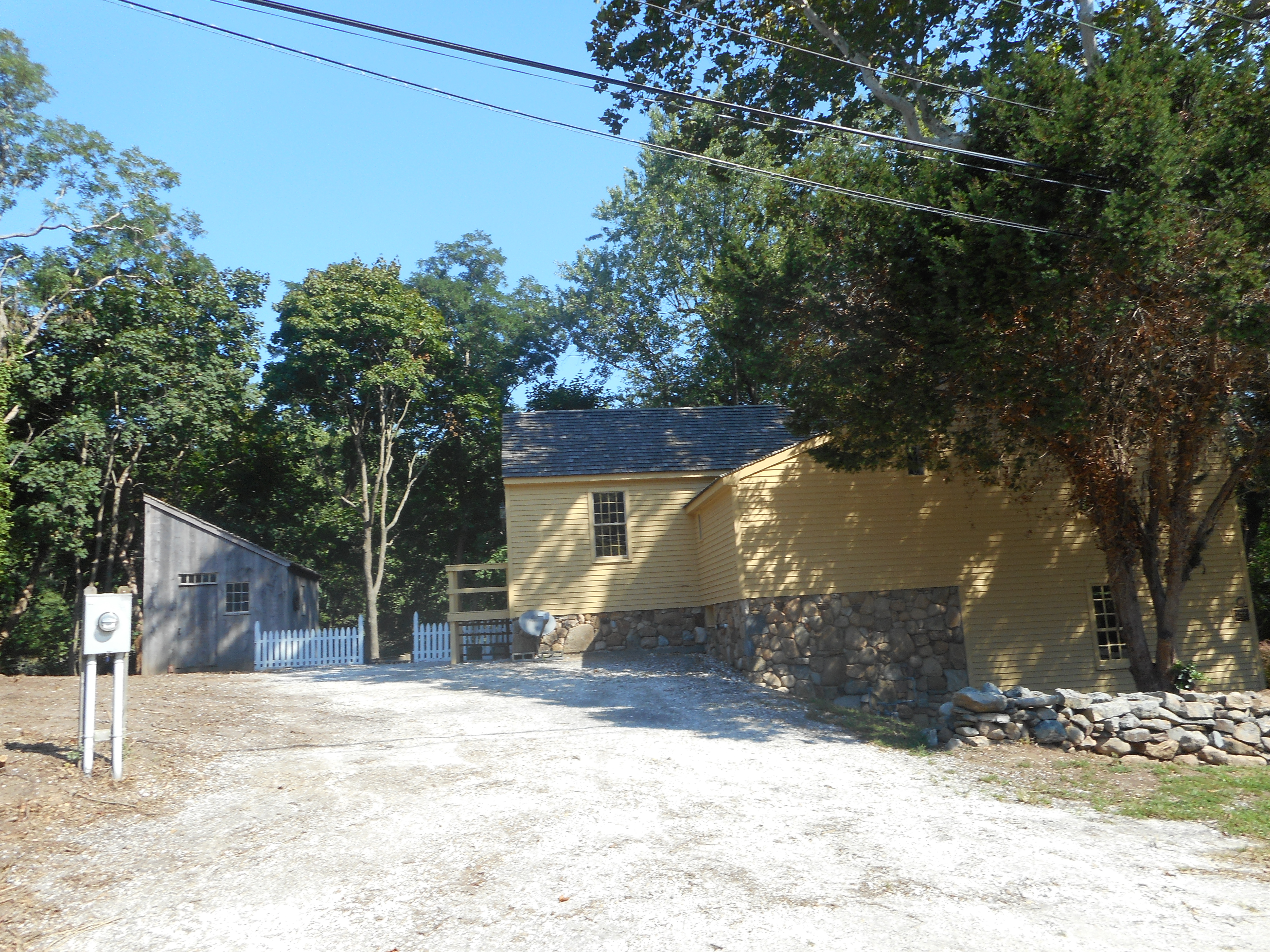 The NRHP-listed Town Doctor's House and Site in Southold, New York.